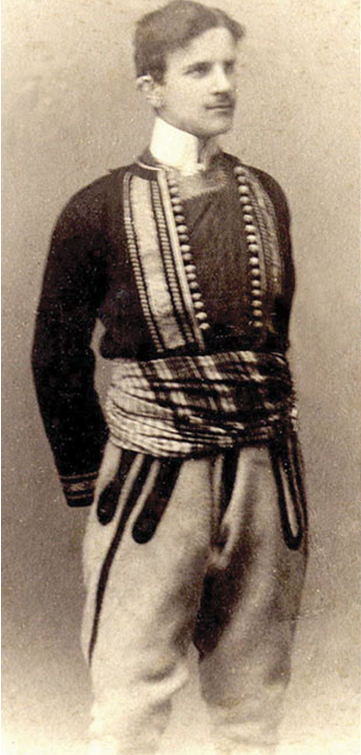 Young man, possibly in Albanian or Macedonian folk costume, 19th century.Note: This picture is claimed in various sources to represent inventor Nikola Tesla in 1880 and used to support the claim that Tesla was either Albanian (e.g. 1) or Macedonian. The man depicted is certainly not Tesla, see e.g. this picture of Tesla from 1879. The image is said to be preserved at a private museum by S. BABOVIC (May 04, 2012). on "Engineer Slobodan Nikolic has a collection of rarities. He [Nikolic] received the original photograph from the scientist's relatives"